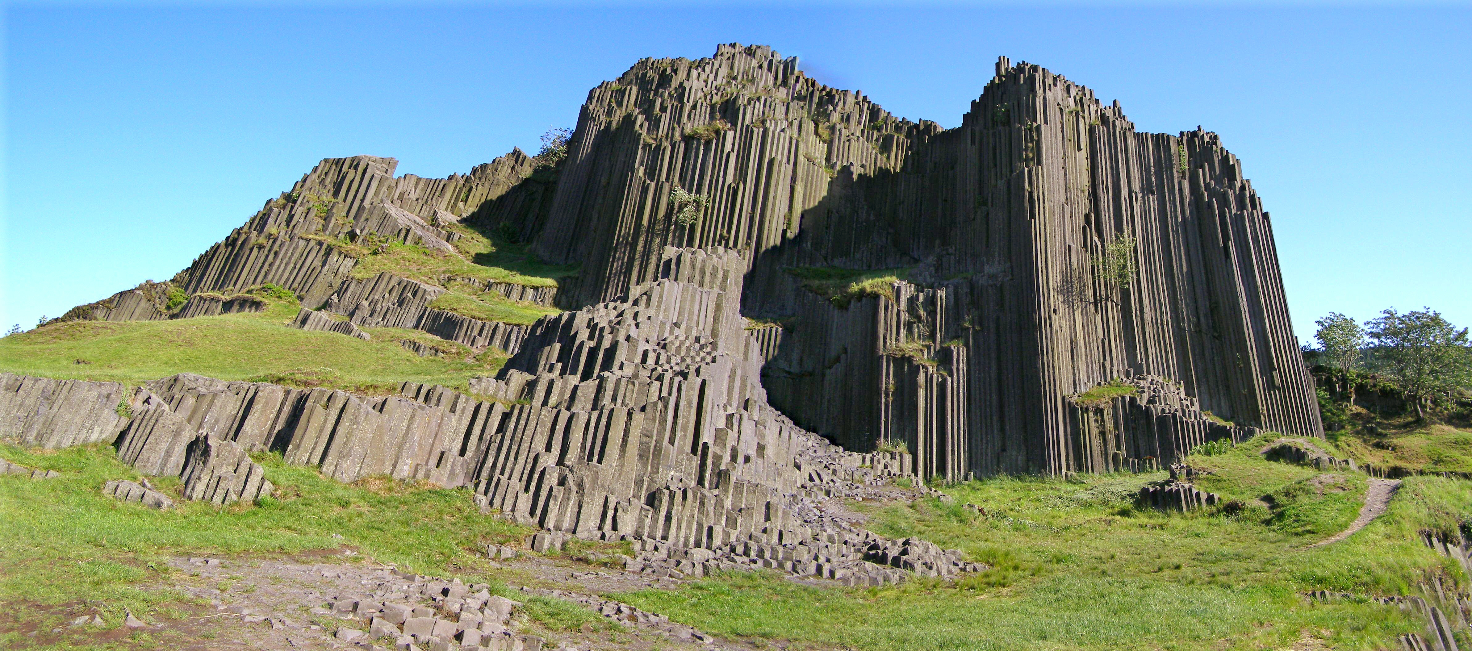 Panská skála, Czech republic